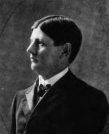 Portrait of New York state senator Irving L'Hommedieu